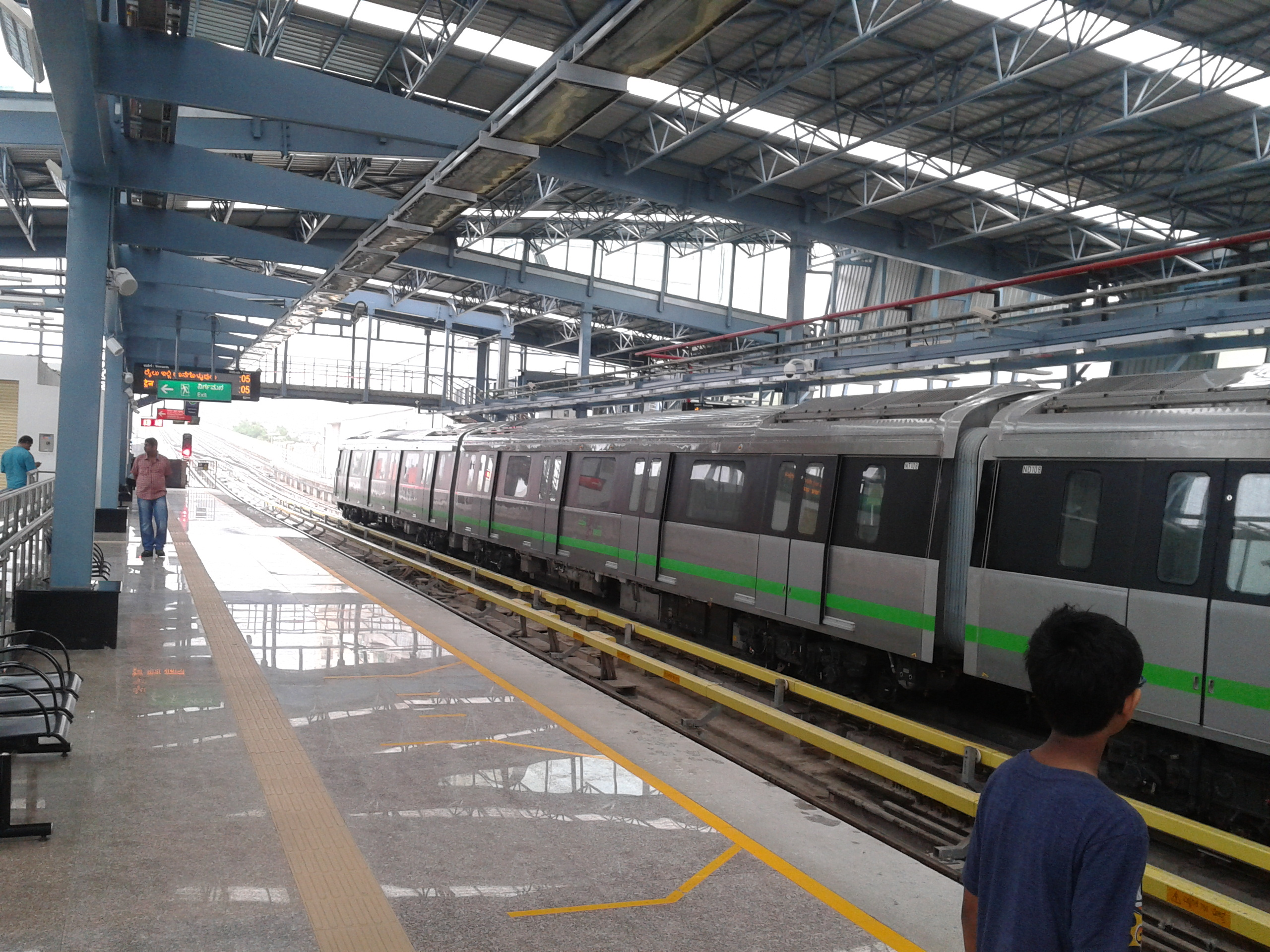 Mantri Square Sampige Road Metro-Platform View1